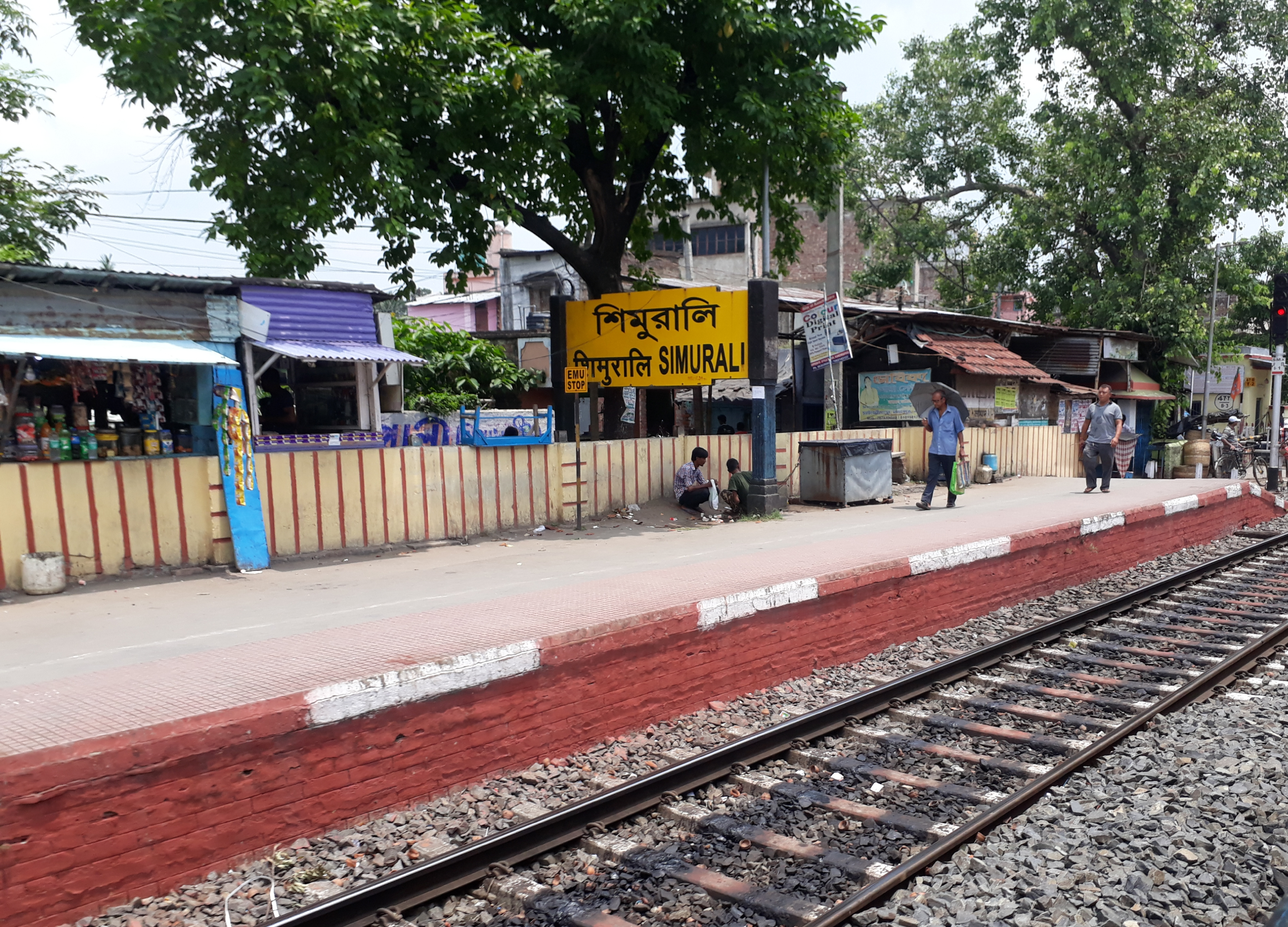 Simurali railway station on Sealdah Ranaghat main line in Nadia, West Bengal